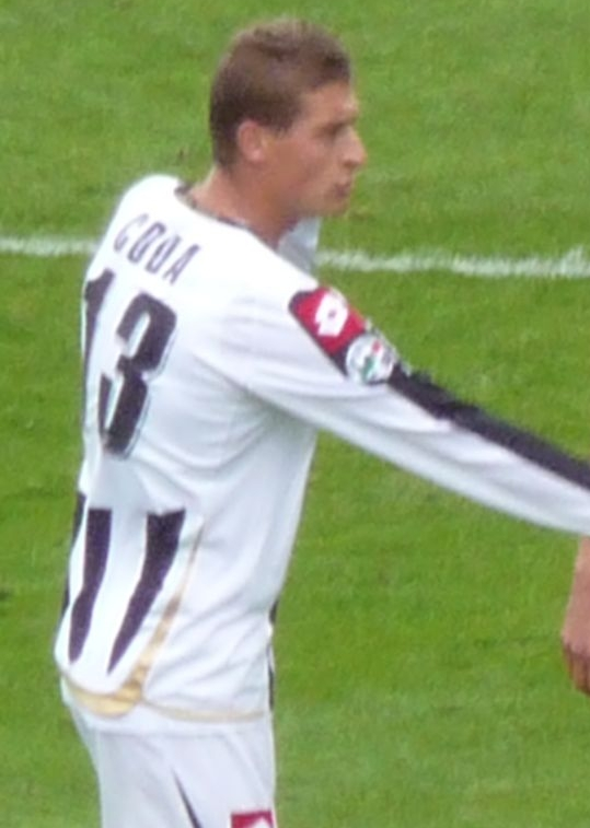 Udinese - Atalanta 1-3 18/10/2009